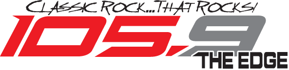 Former logo of the radio station WMAL-FM used between 2009 and 2011.